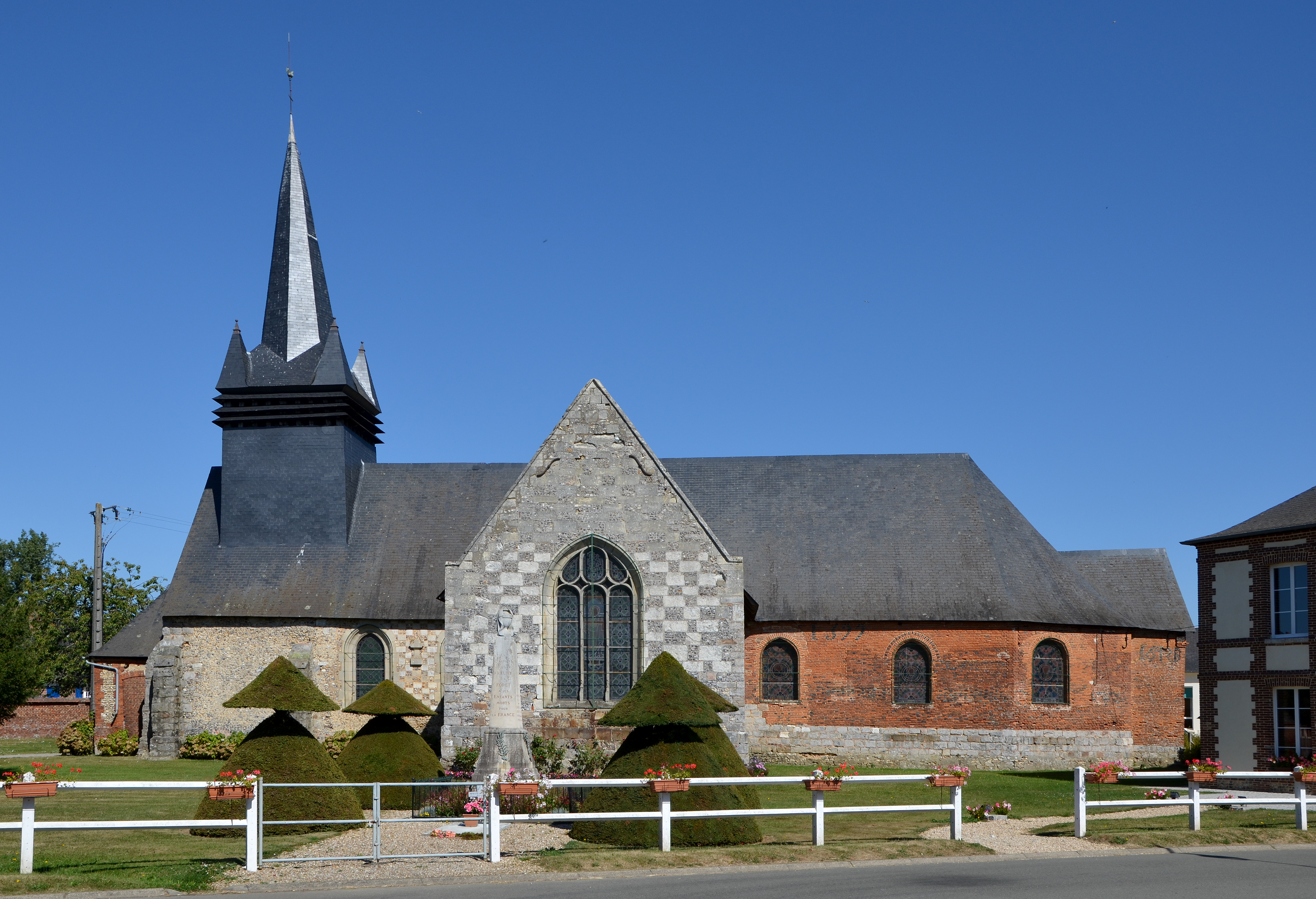 Church of Fleury-la-Foret, Normandy, France